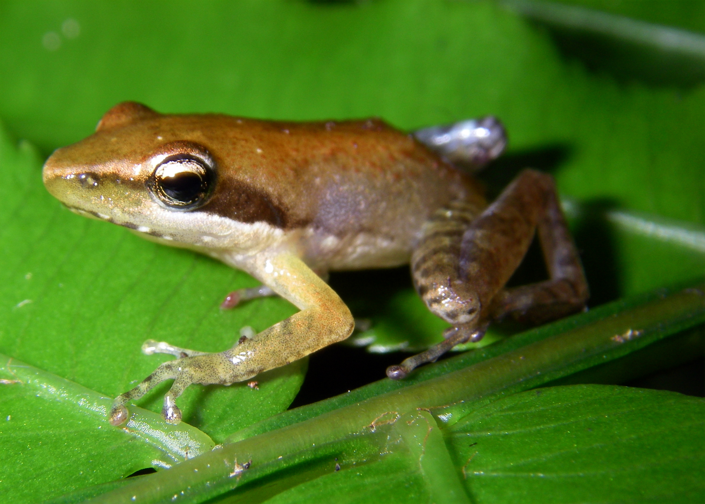 Blommersia blommersae (Mantellidae); Ranomafana National Park, eastern Madagascar; picture taken close to the Kidonavo stream